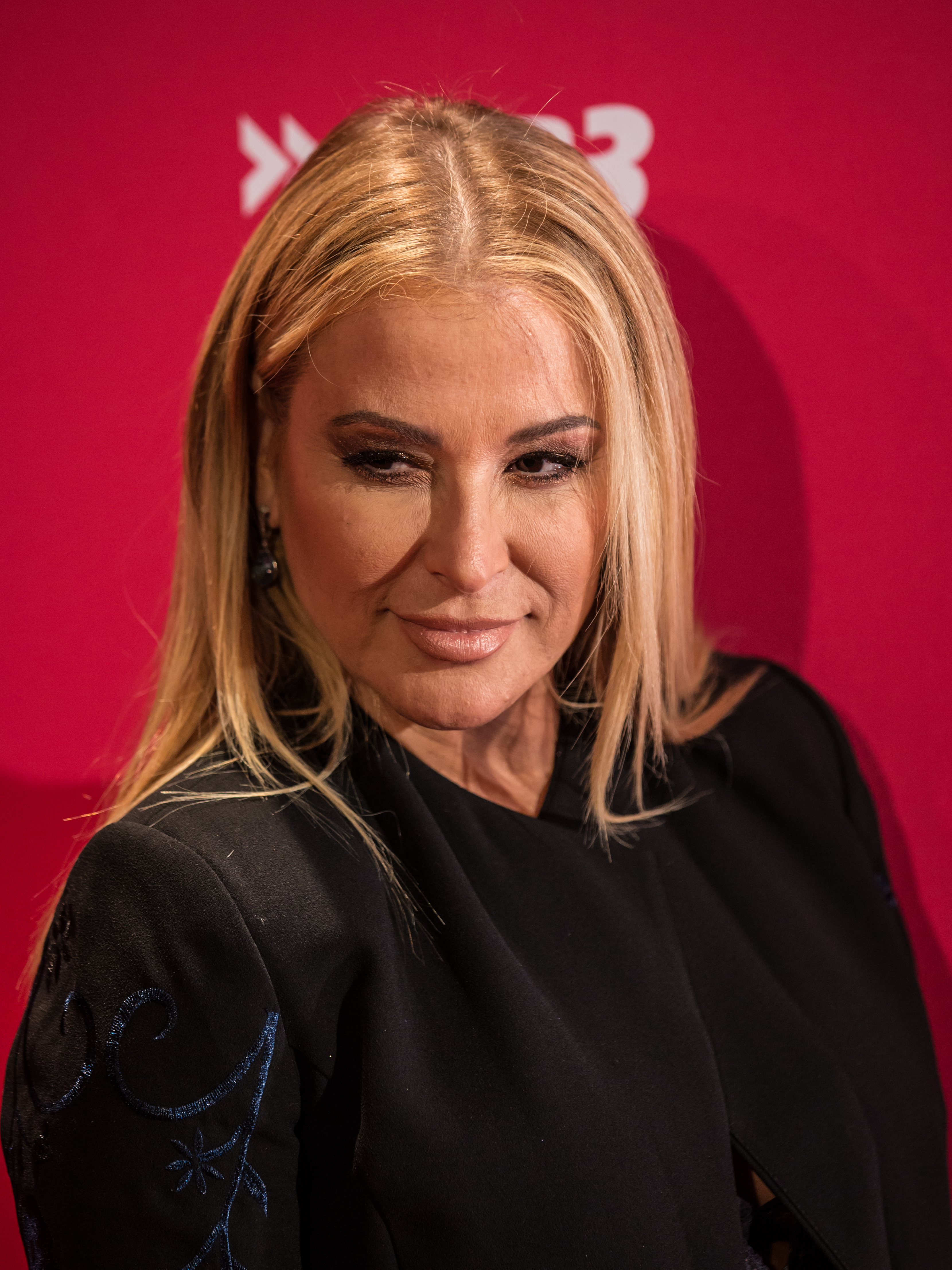 US-American singer-songwriter Anastacia at the SWR3 New Pop Festival 2017